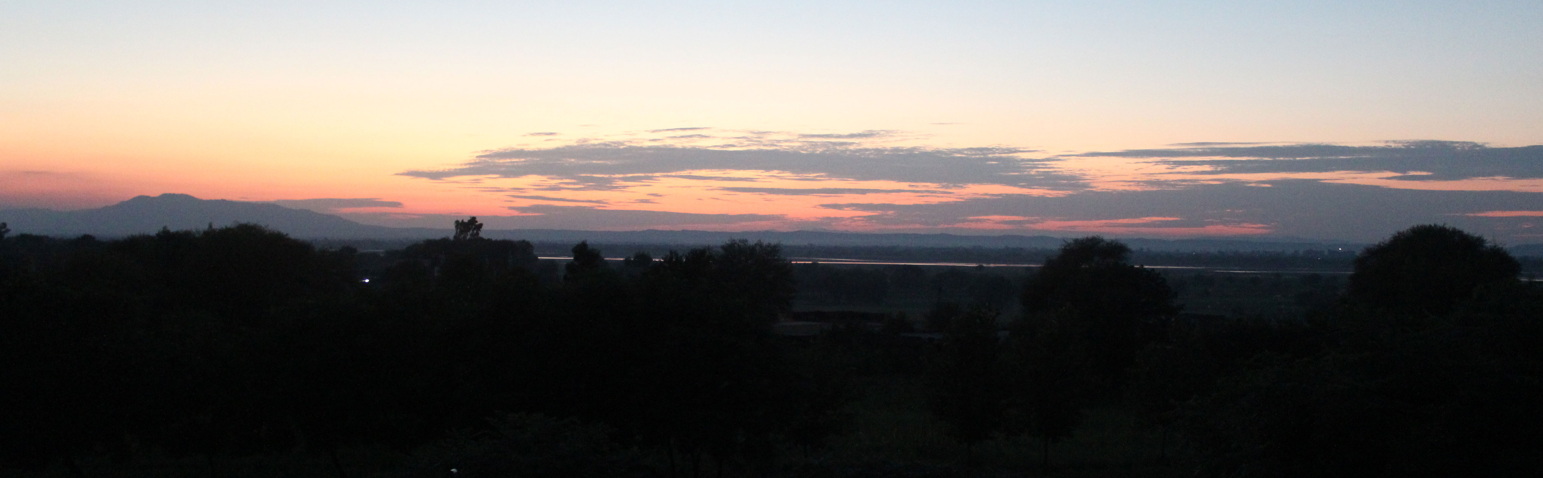 Tilla Jogian Hills on the left, River Jehlum in the foreground, Picture taken from a several miles distance. Other information Taken From Canon EOS600D